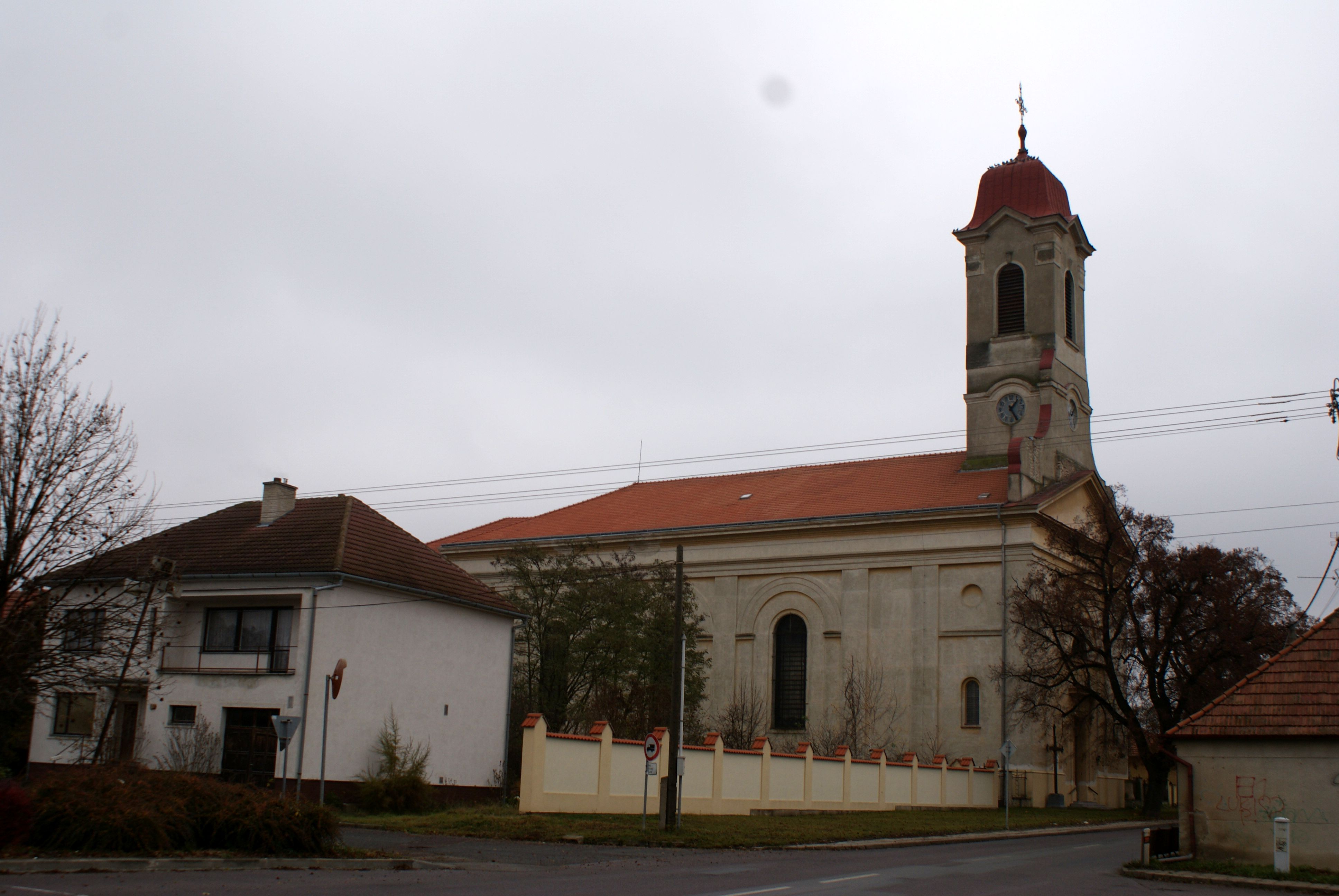 Březí, Moravia, Church of St John the Baptist